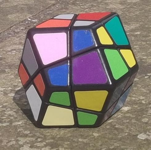 Ultimate Skewb puzzle with Rhombus shaped faces